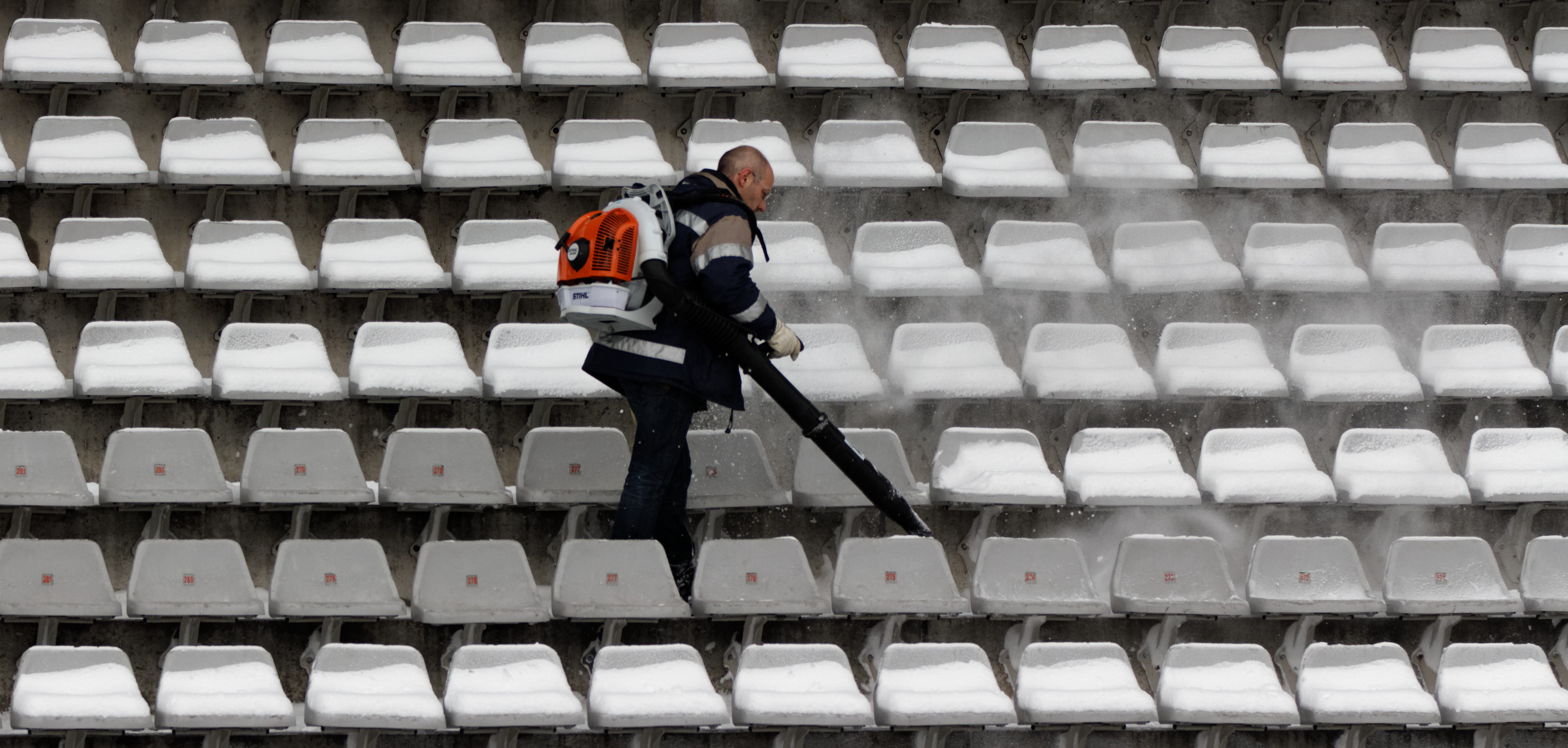 PSG-Toulouse, January 20th, 2013. Snow Removal with leaf blower.